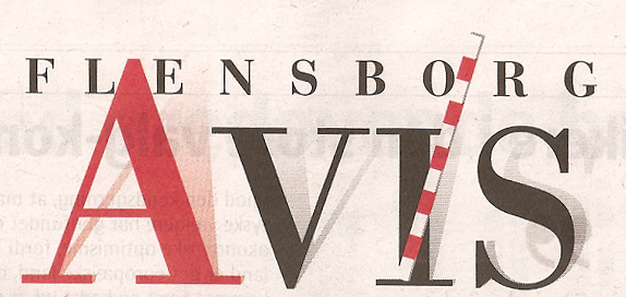 Logo of the Danish newspaper Flensborg Avis published in Flensburg, Germany.